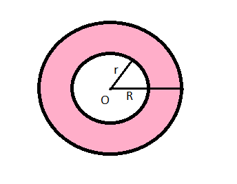 O-Ring